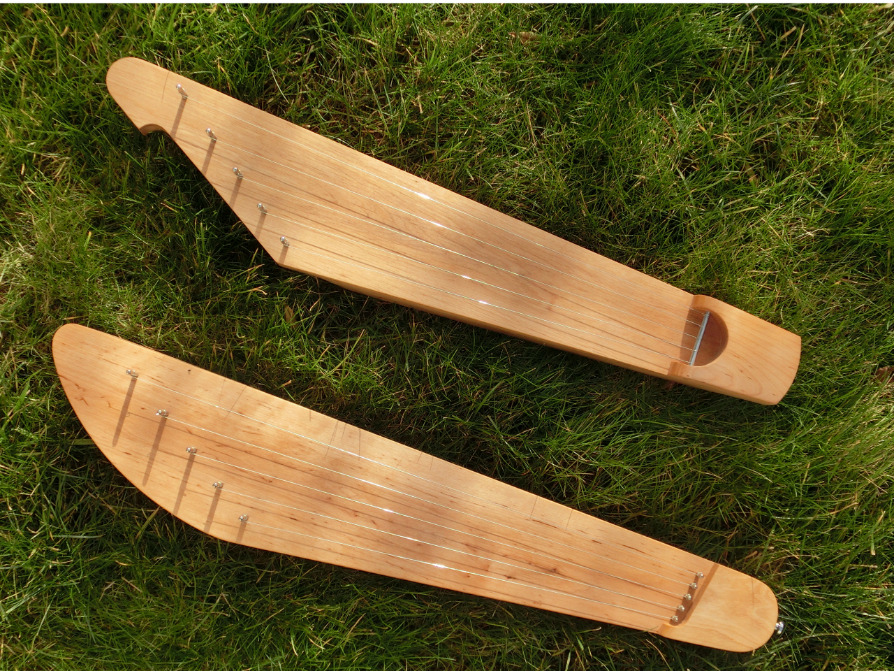 Two contemporary five string kanteles - one in a traditional, one in a "modern" shape. Maker: Melodia Soitin, Finland.